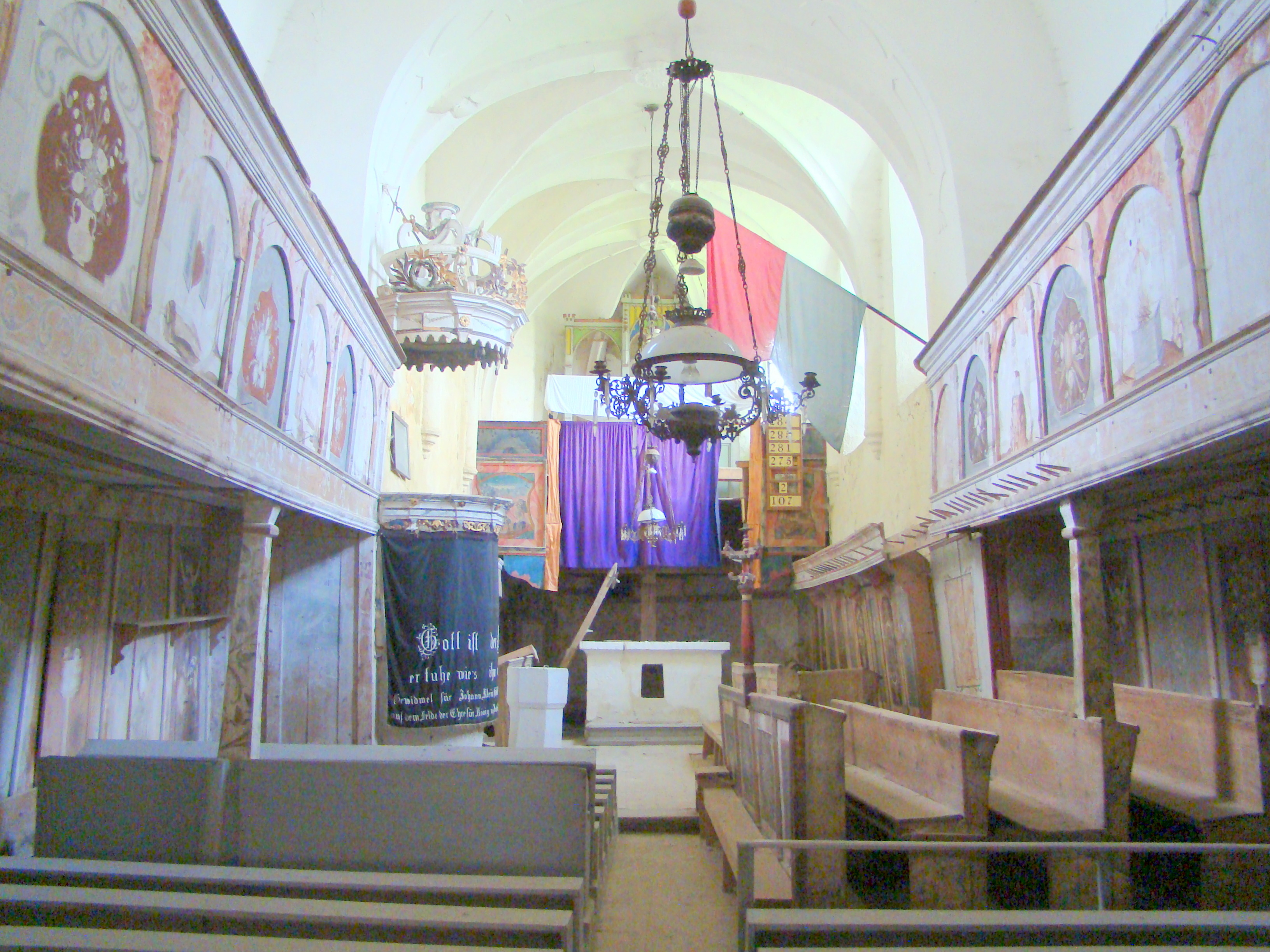 Lutheran church in Beia, Braşov county, Romania